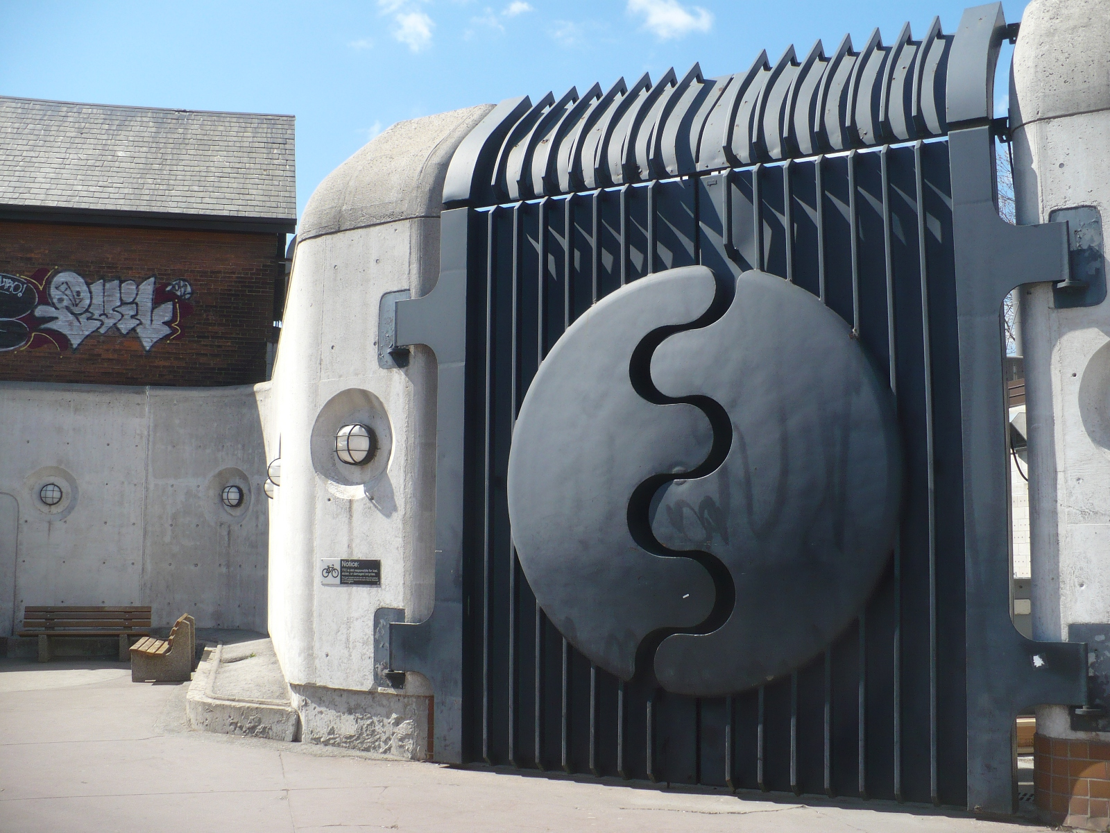 Electrical substation door at the Dupont subway station in Toronto